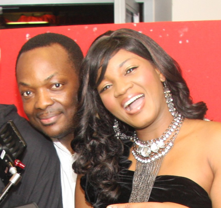 Dj Abass with Omotola Jalade Ekeinde